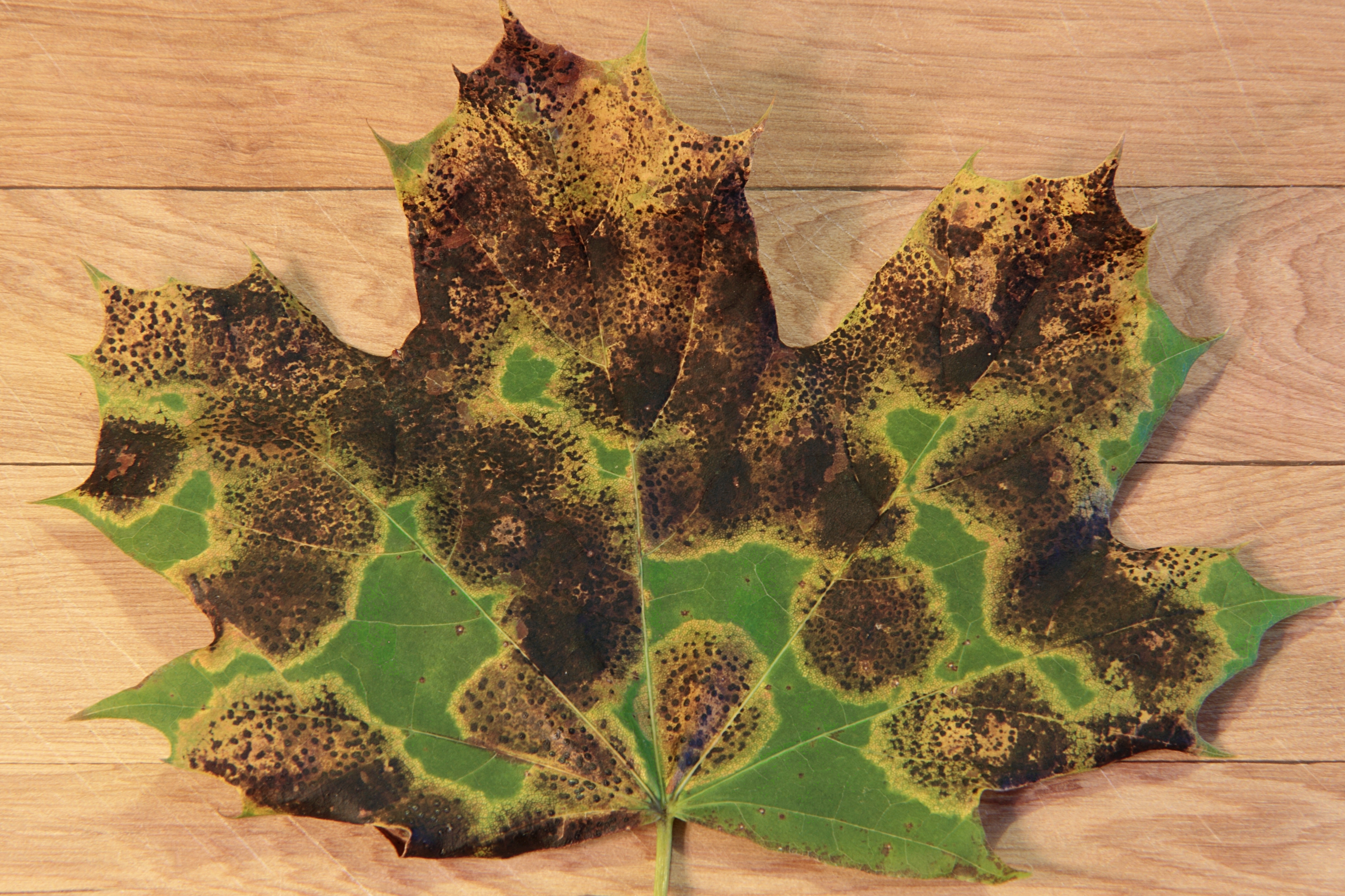 Leaf of Norway maple with Rhytisma acerinum.